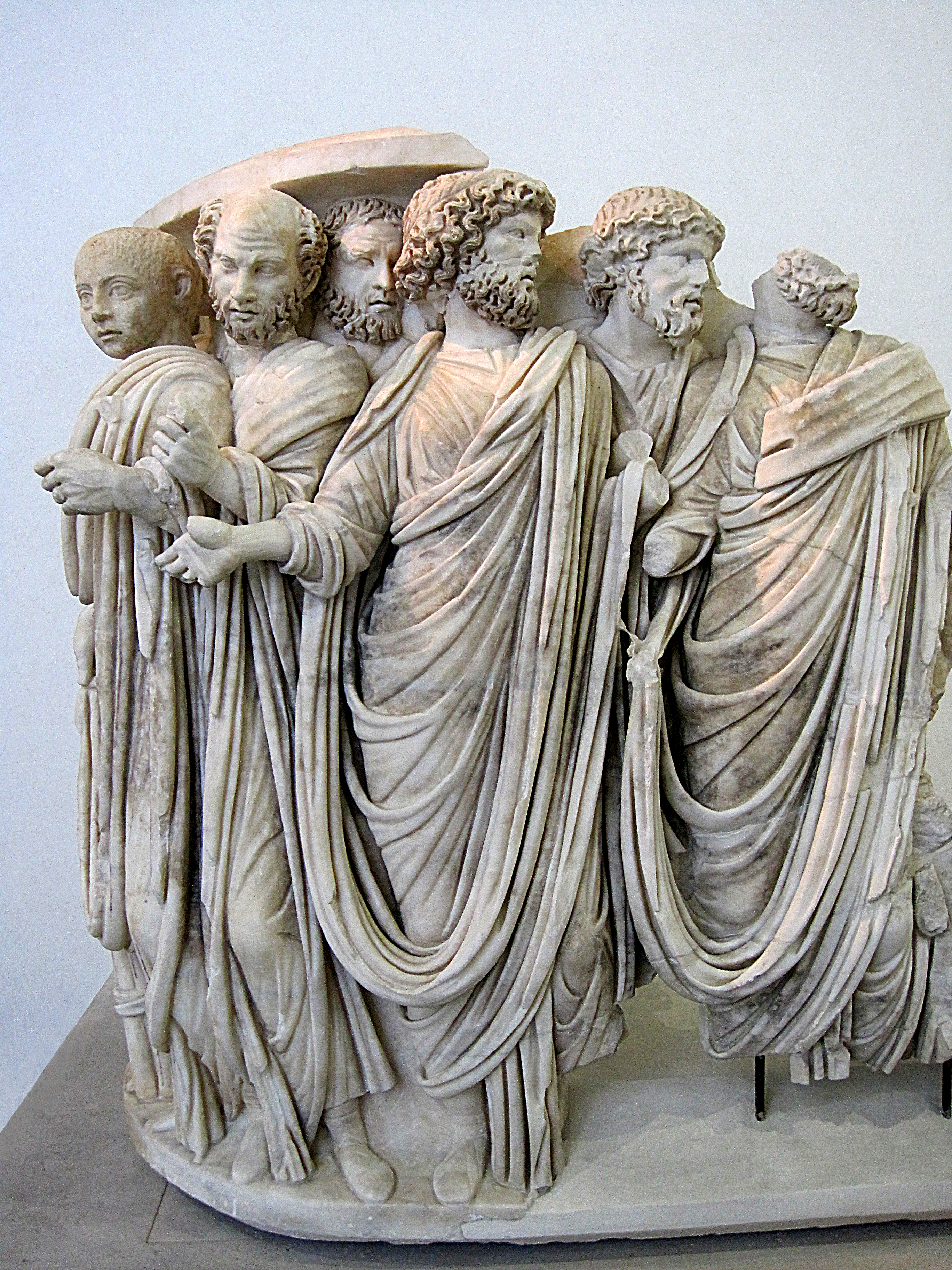 Marble fragment of the sarcophagus depicting Acilia Gordian III and some members of the Roman Senate.